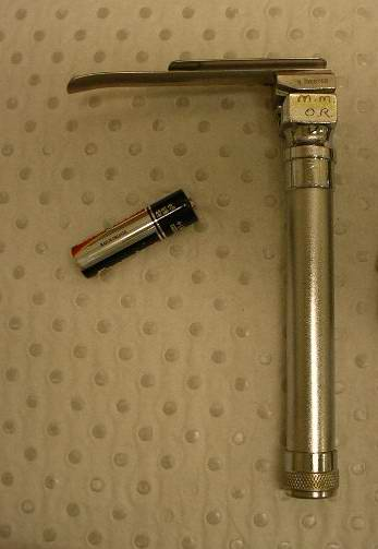 Infant larygoscope with AA batery for size comparison